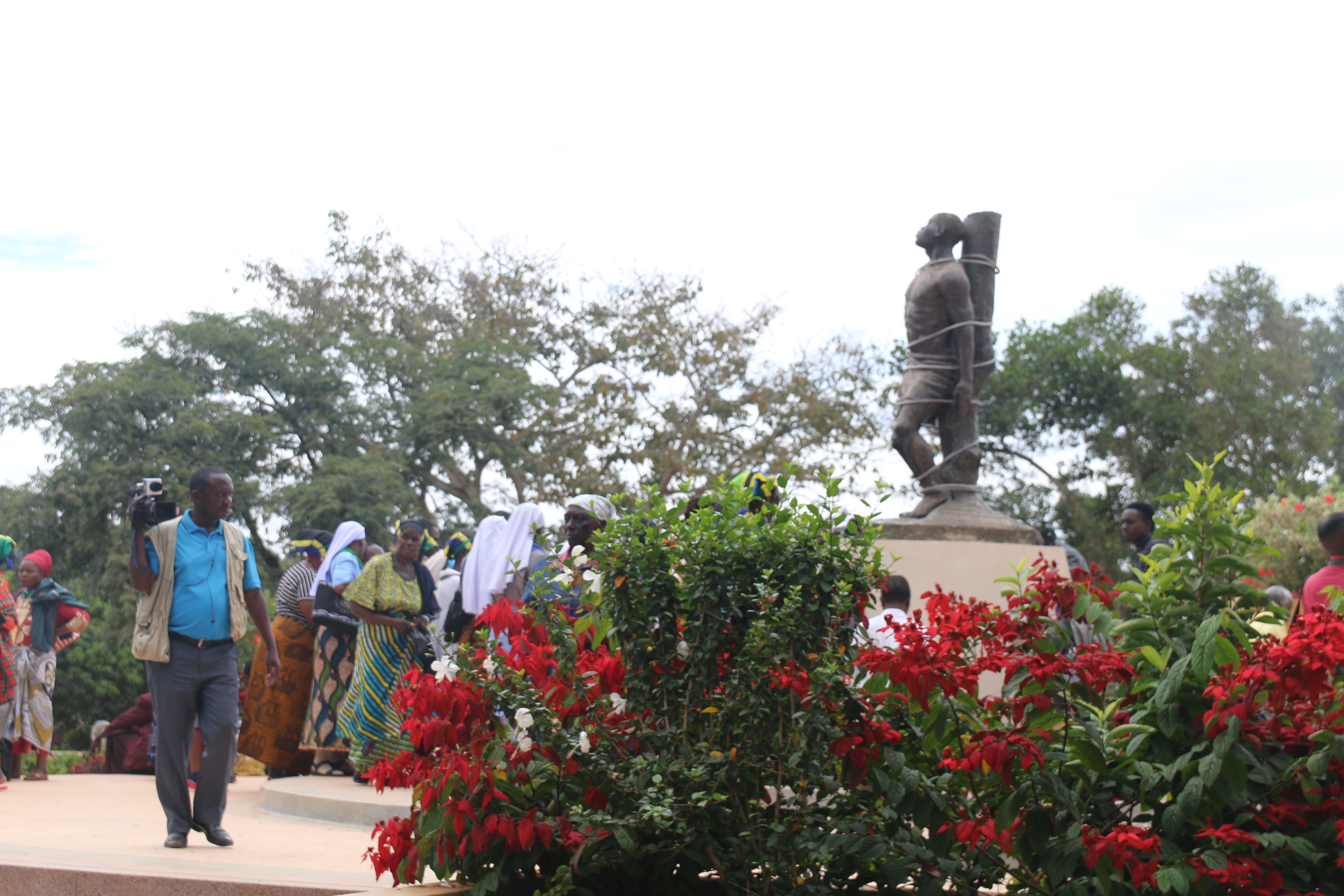 Monument erected in Munyonyo (Kampala) on the spot where first christians were martyred in 1886 by King Mwanga of Buganda.